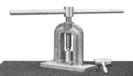 A screw press style pellet mill.